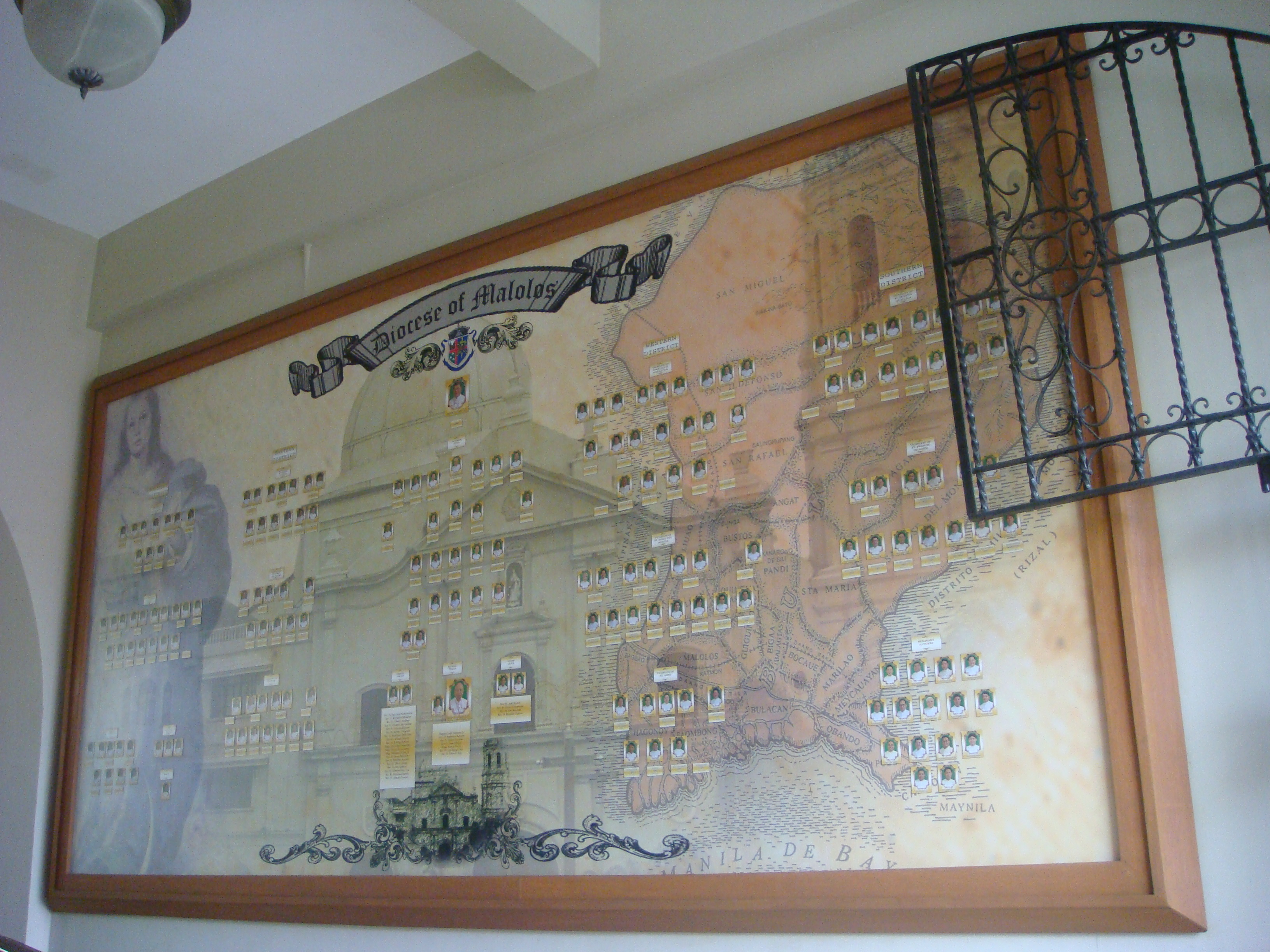 The Hierarchy of the Basilica Minore de Immaculada Concepcion Malolos City, Bulacan[1]